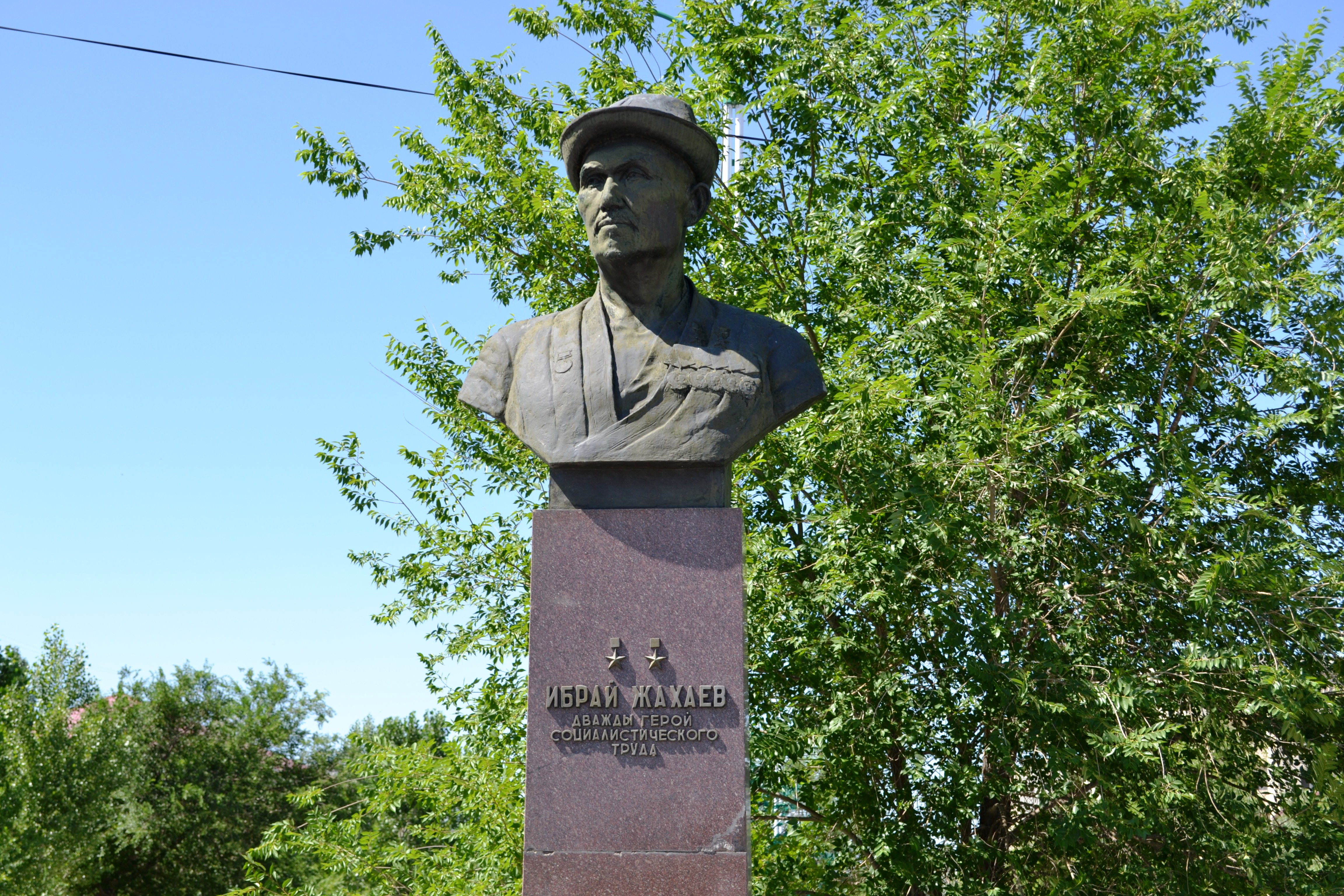 Zhakhayev Monument in Kyzylorda. Sculptor A.Pekarev.